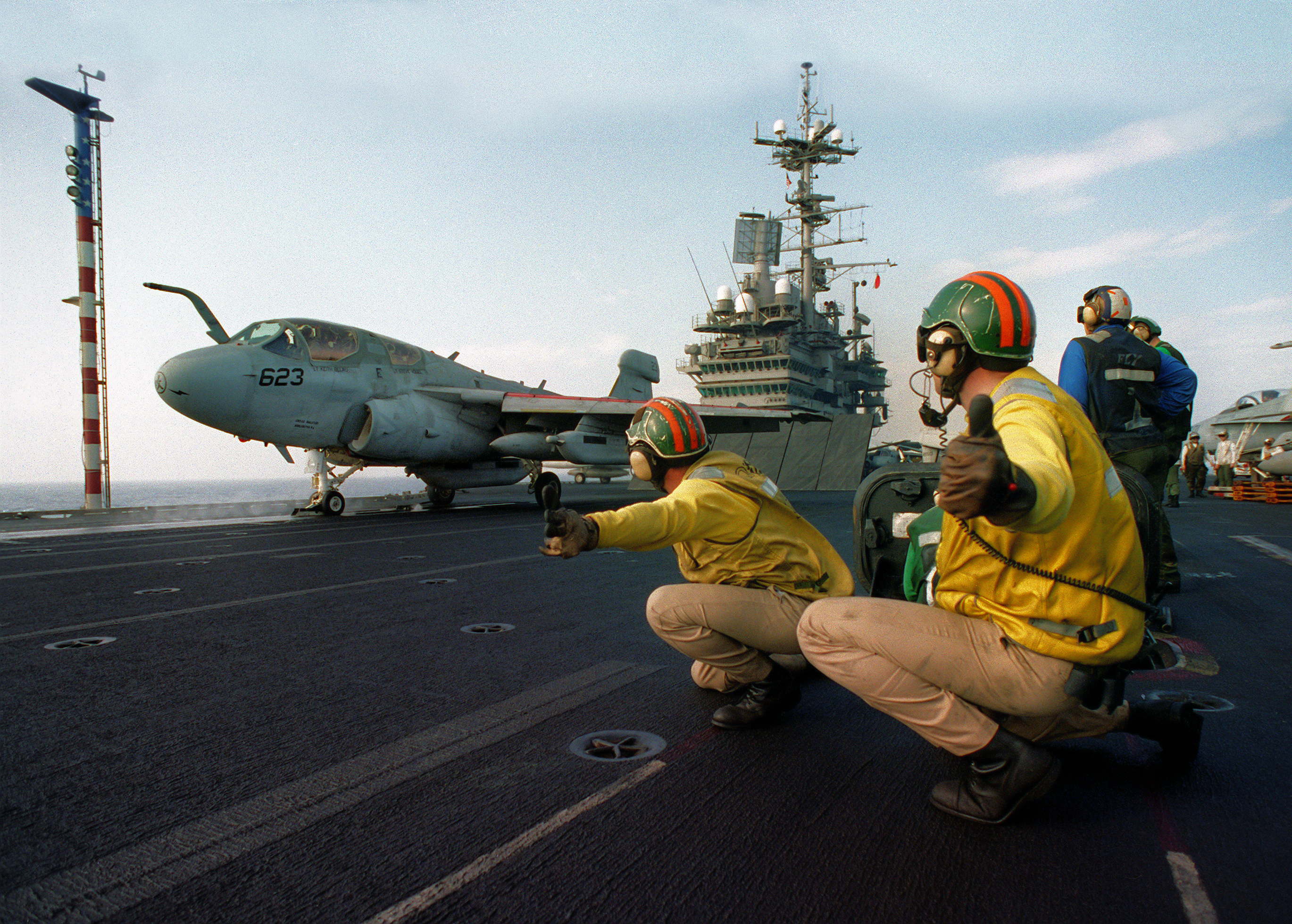 U.S. Navy catapult launching officers Lt.Cdr. Tony Boex and Lt. Tom Mossey signal an Grumman EA-6B Prowler (BuNo 163404) of Electronic Attack Squadron 136 (VAQ-136) "Gauntlets" for take-off from the aircraft carrier USS Independence (CV-62) on 13 March 1996. VAQ-136 was assigned to Carrier Air Wing 5 (CVW-5) abaord the Independence for a deployment to the South China Sea from 9 February to 27 March 1996.On 10 March 1996, following China's intent to conduct live fire war games off the coast of Taiwan, U.S. Secretary of State Warren Christopher announced that the carrier was being moved closer to the Taiwan Straits. Independence was at that time homeported in Yokosuka, Japan.